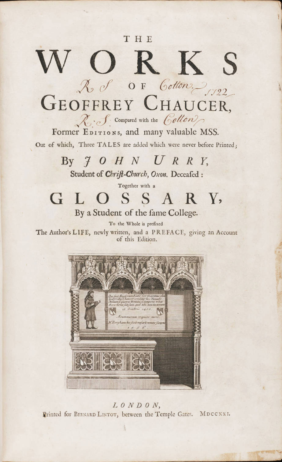 Title page of John Urry's edition of Chaucer's Works, London, 1721. The edition was published posthumously, as the title page indicates. From the collection of Robert Cotton, 5th Baronet (1669-1749); signed by him above and below Chaucer's name.